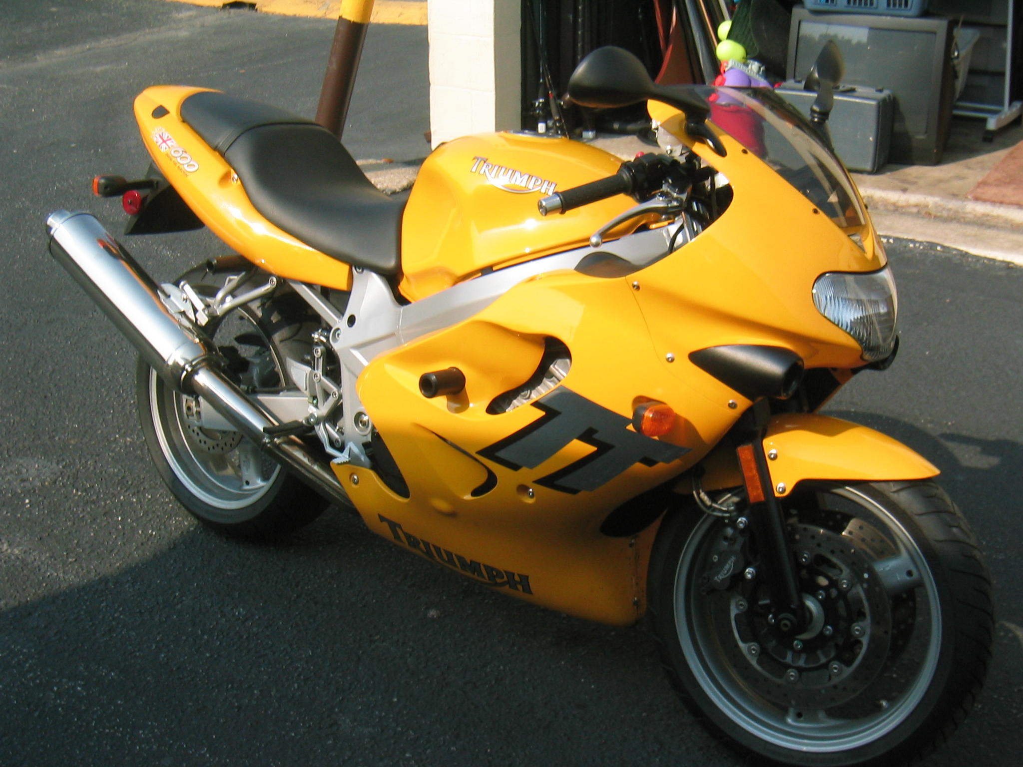 Picture of my 2001 TT600